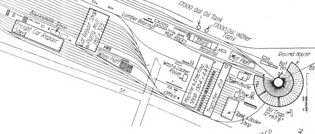 Railway Review vol 68 no 21 page 772 (2)